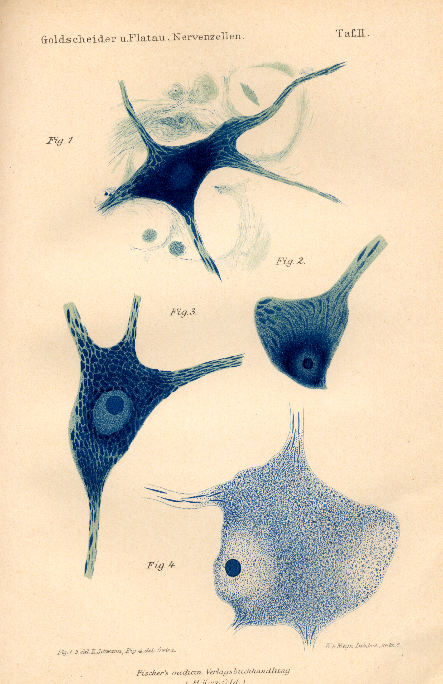 illustration from Goldscheider and Flatau 1898 book